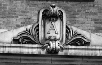 Shibe Park, A's logo in cartouche, tighter crop of File:ShibePark1973HABS6of9.jpg to show detail of cartouche